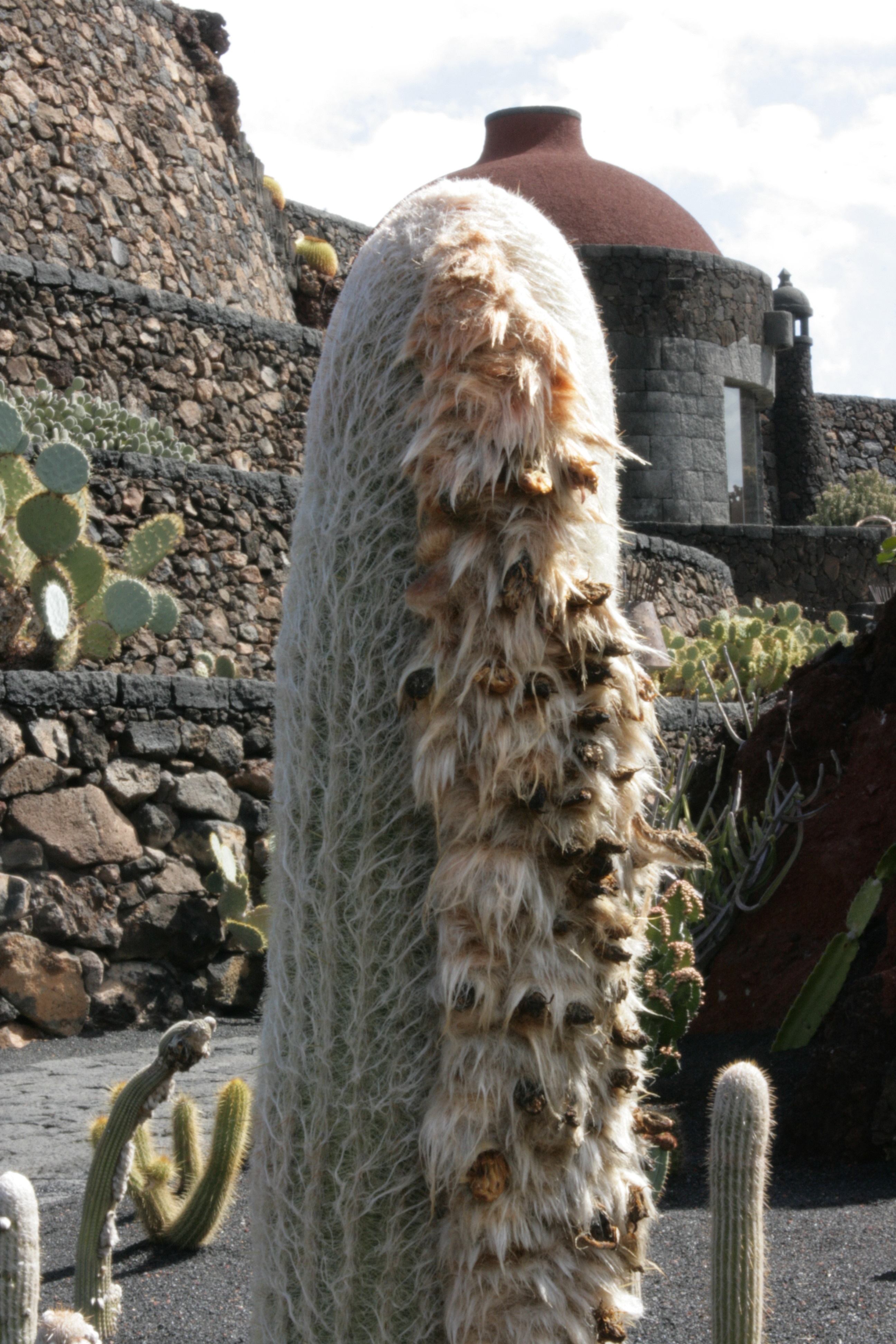 Espostoa melanostele grown in the Botanical Garden “Jardin de Cactus” in Guatiza, Teguise, Lanzarote, Canary Islands